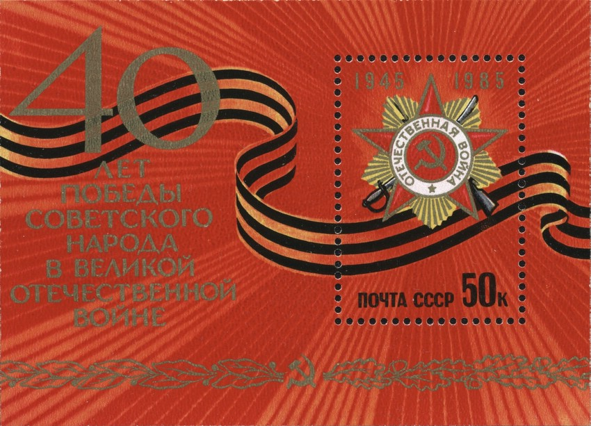 A USSR stamp, 40th Anniversary of Victory in Second World War. Date of issue: 20th April 1985. Designer: A. Smidshtein. Michel catalogue number: Block182 (5495). 50 K. multicoloured. Order of Patriotic War.